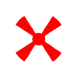 Sail logo of Windmill class dinghy